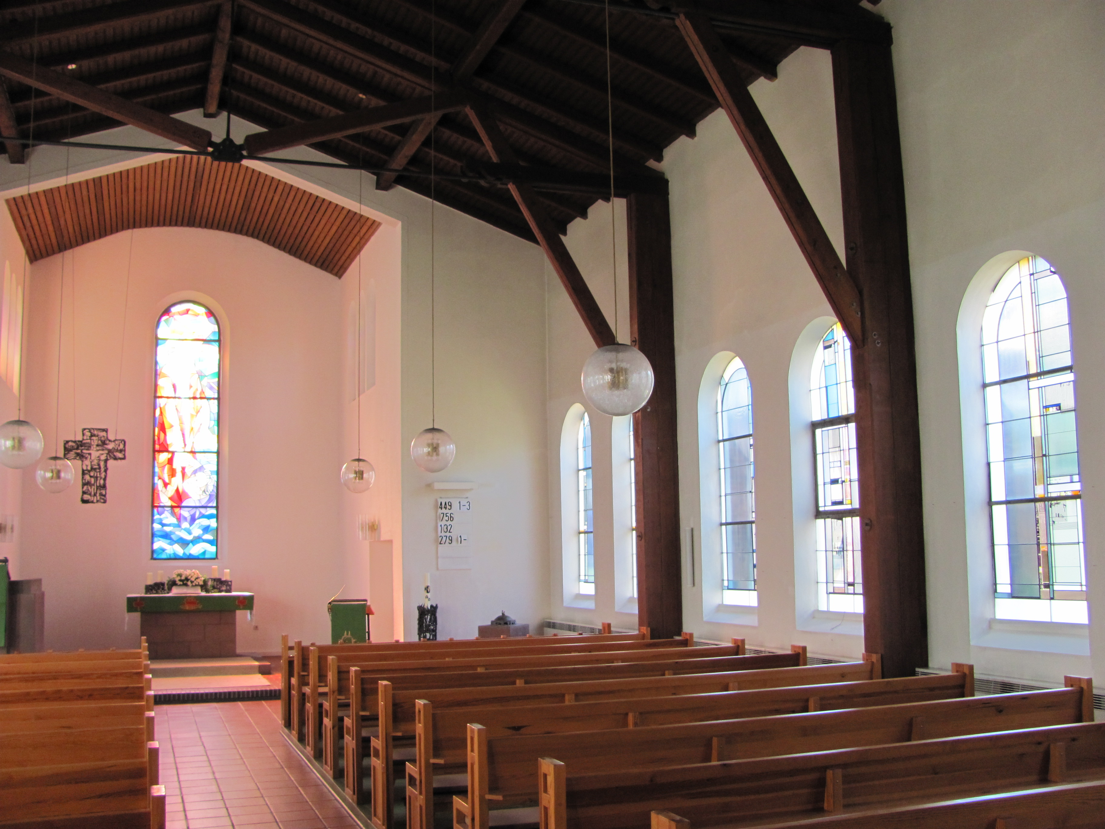 Lutheran Church Borkum, Germany